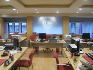 Offices of the Official College of Physicians of Valladolid